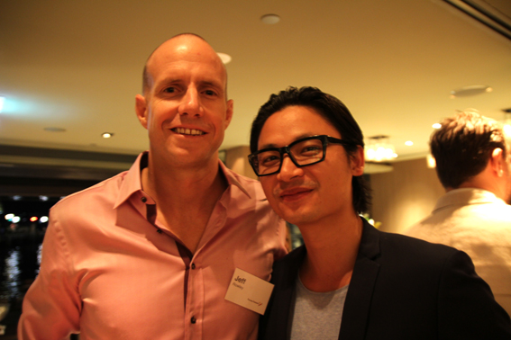 Jeff Rowley with Luke Nguyen